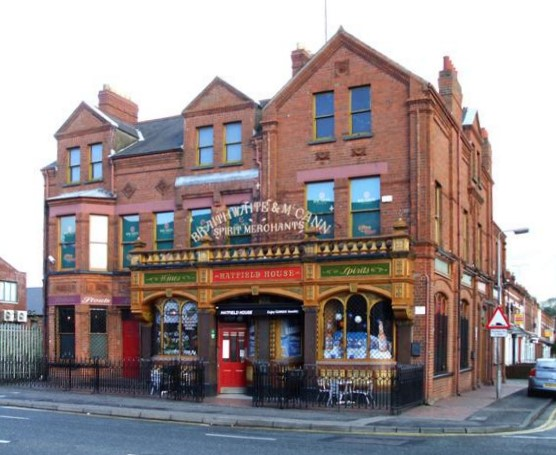 The Hatfield House, Belfast Over 140 years old, it is located along the Ormeau Road - more at